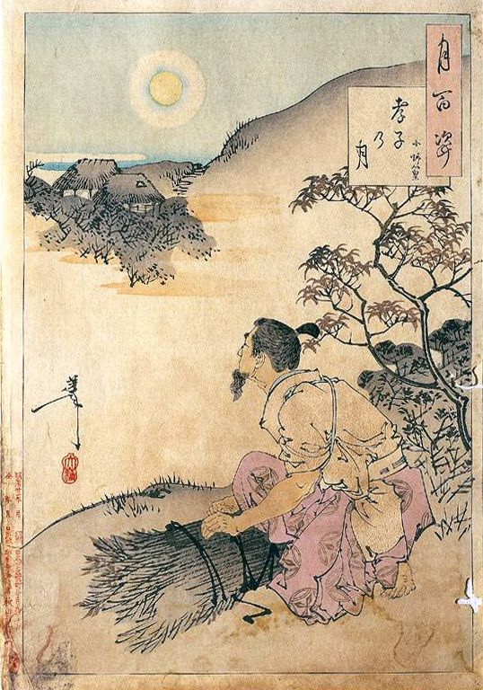 Moon of the filial Son (Koshi no tsuki)